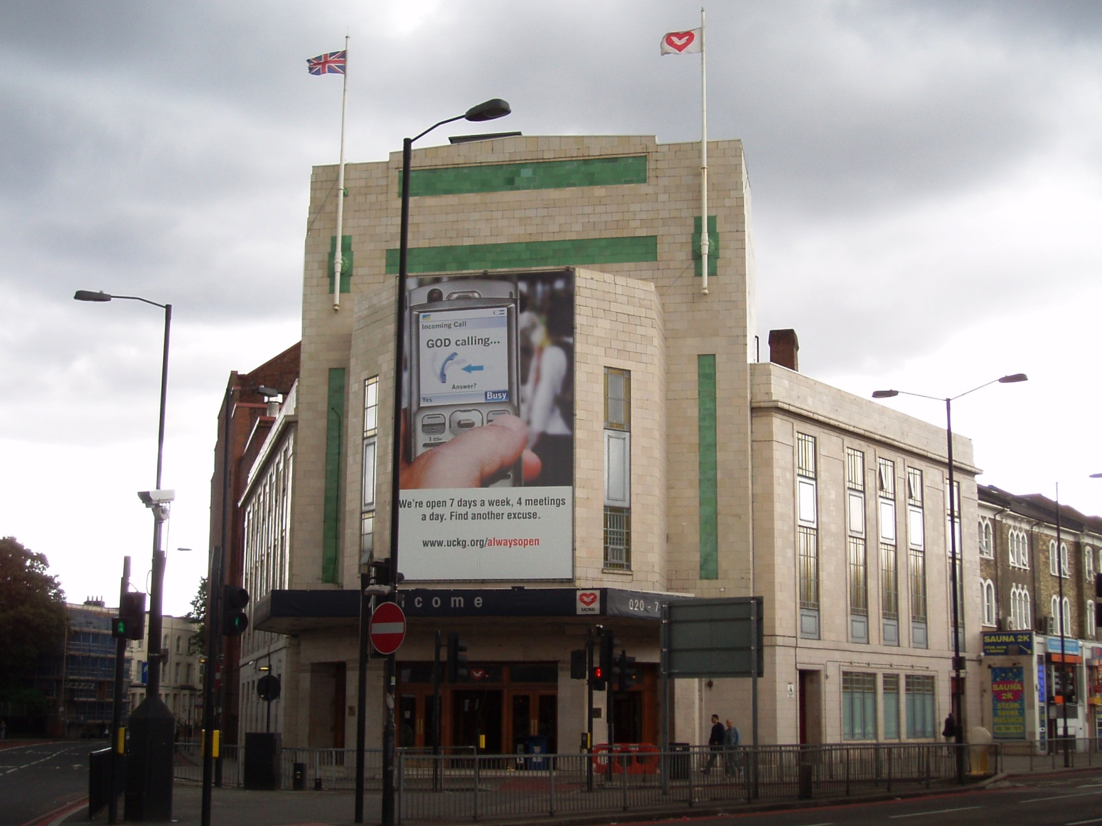 A famous rock venue of the past, now a church. It's opposite another derelict rock venue, The Sir George Robey.